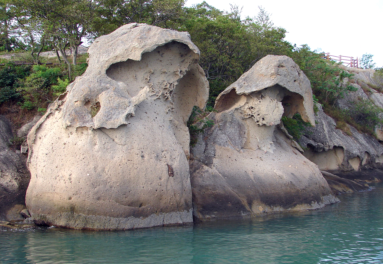 Sandstone and Tafoni formations found on the shore of Mokpo's east harbor, at the mouth of he Yeongsan River, South Jeolla Province, South Korea. The name of this formation at Mokpo is "Gatbawi", meaning a rock shaped like a Gat, a traditional Korean constume item worn like a hat.